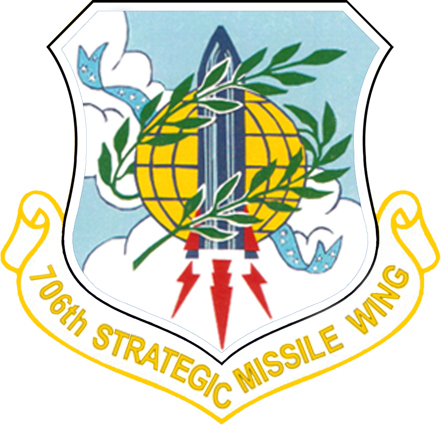 United States Air Force 706th Strategic Missile Wing emblem. Made with Photoshop